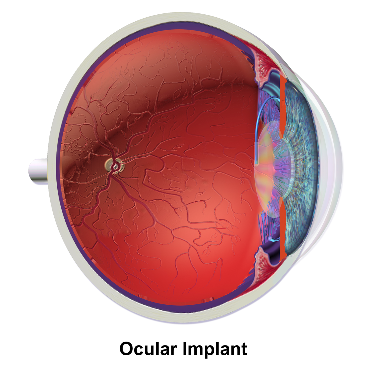 Ocular Implant. See a full animation of this medical topic.